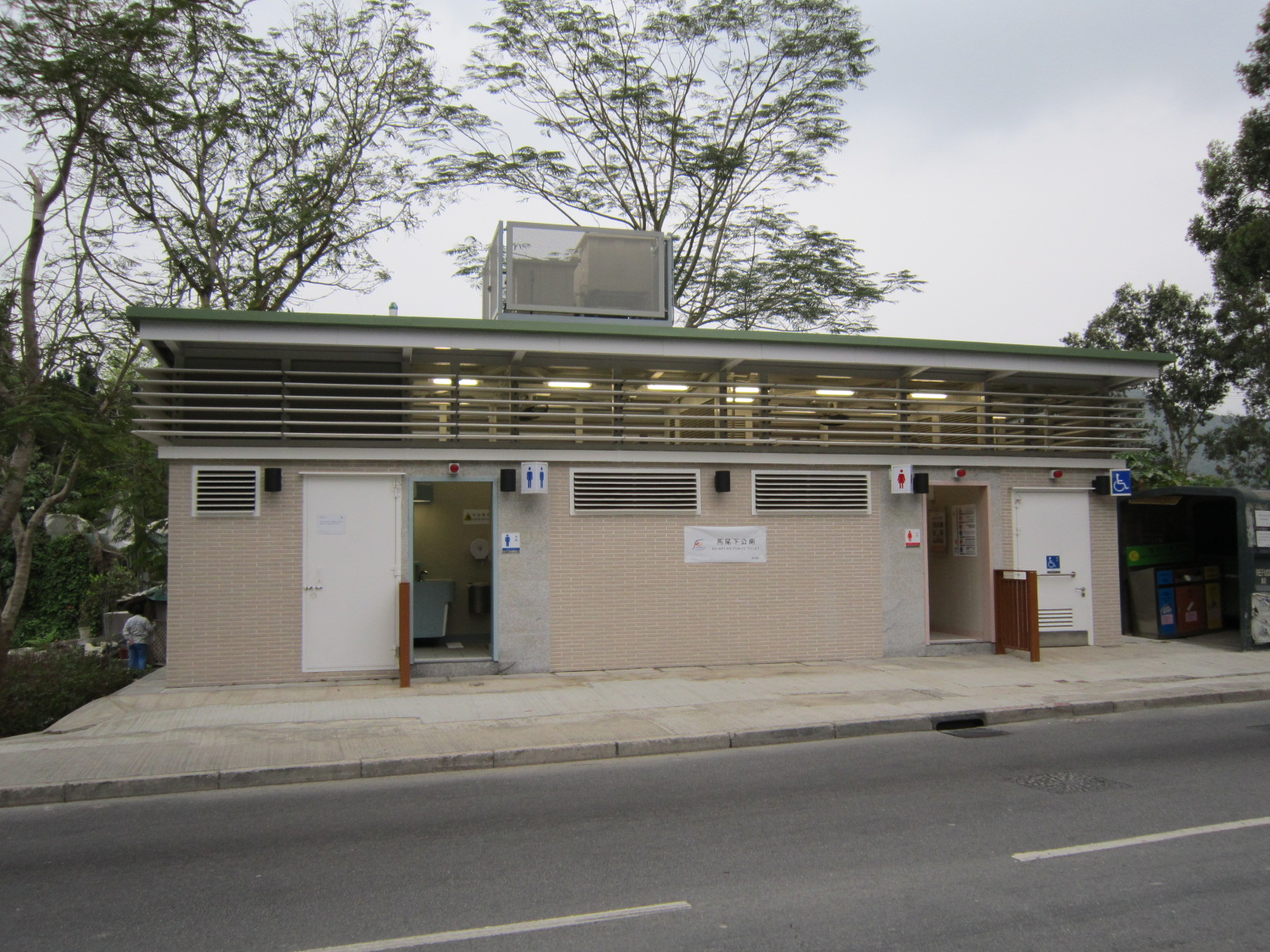 Ma Mei Ha Public Toilet. Converted from an experimental vacuum toilet. 中文（香港）: 馬尾下公廁，前身為一試驗使用真空沖廁系統的鄉郊廁所